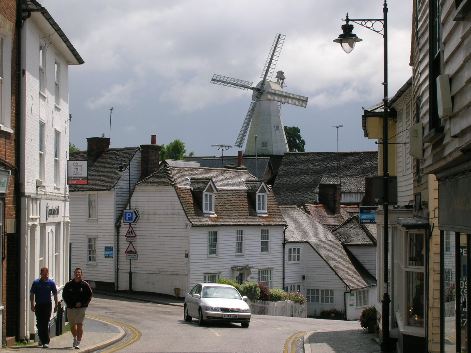 Union Mill, Cranbrook